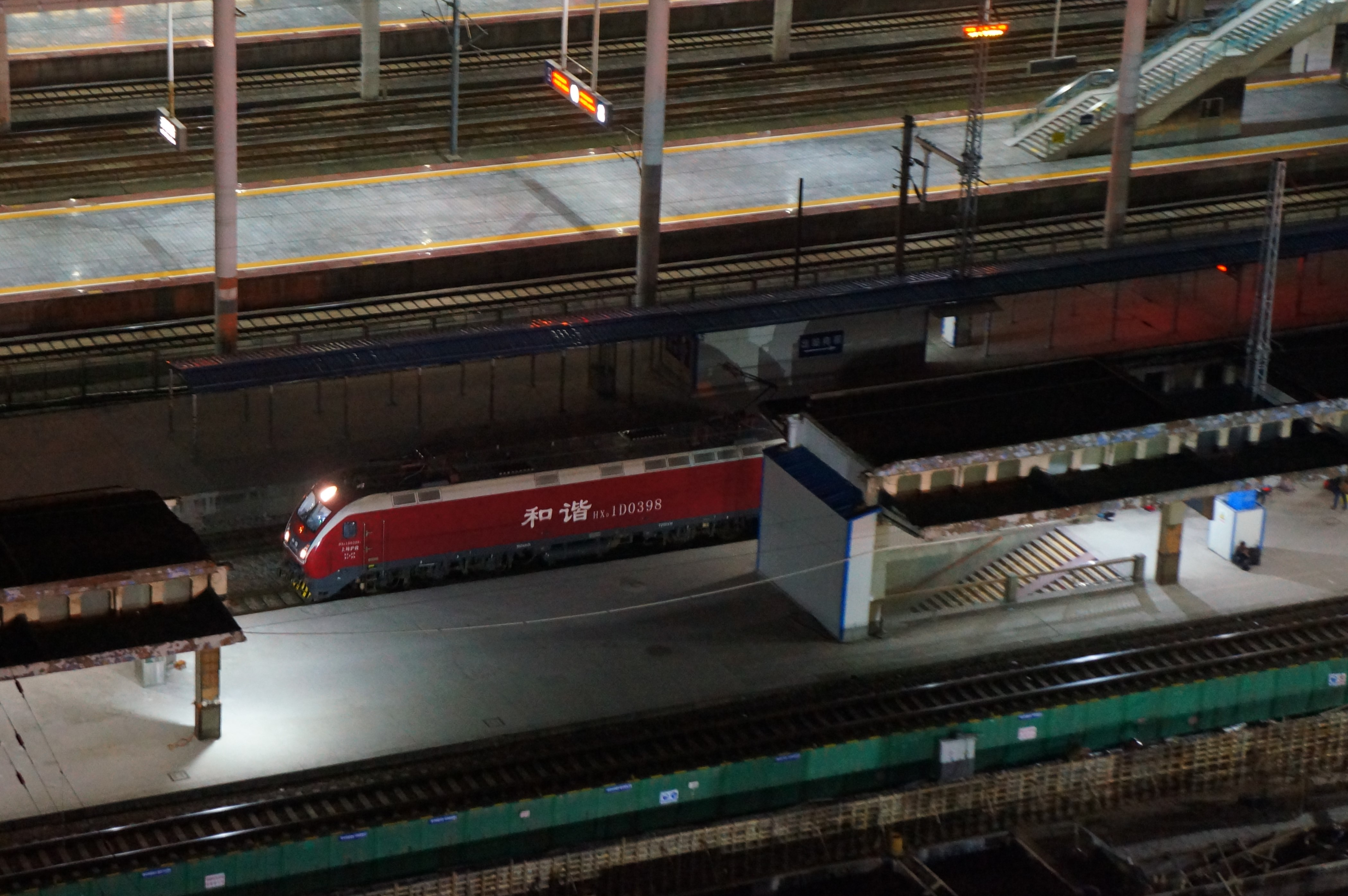 201704 HXD1D-0398 hauls K1048 from Shanghai to Luohe at Wuxi Station